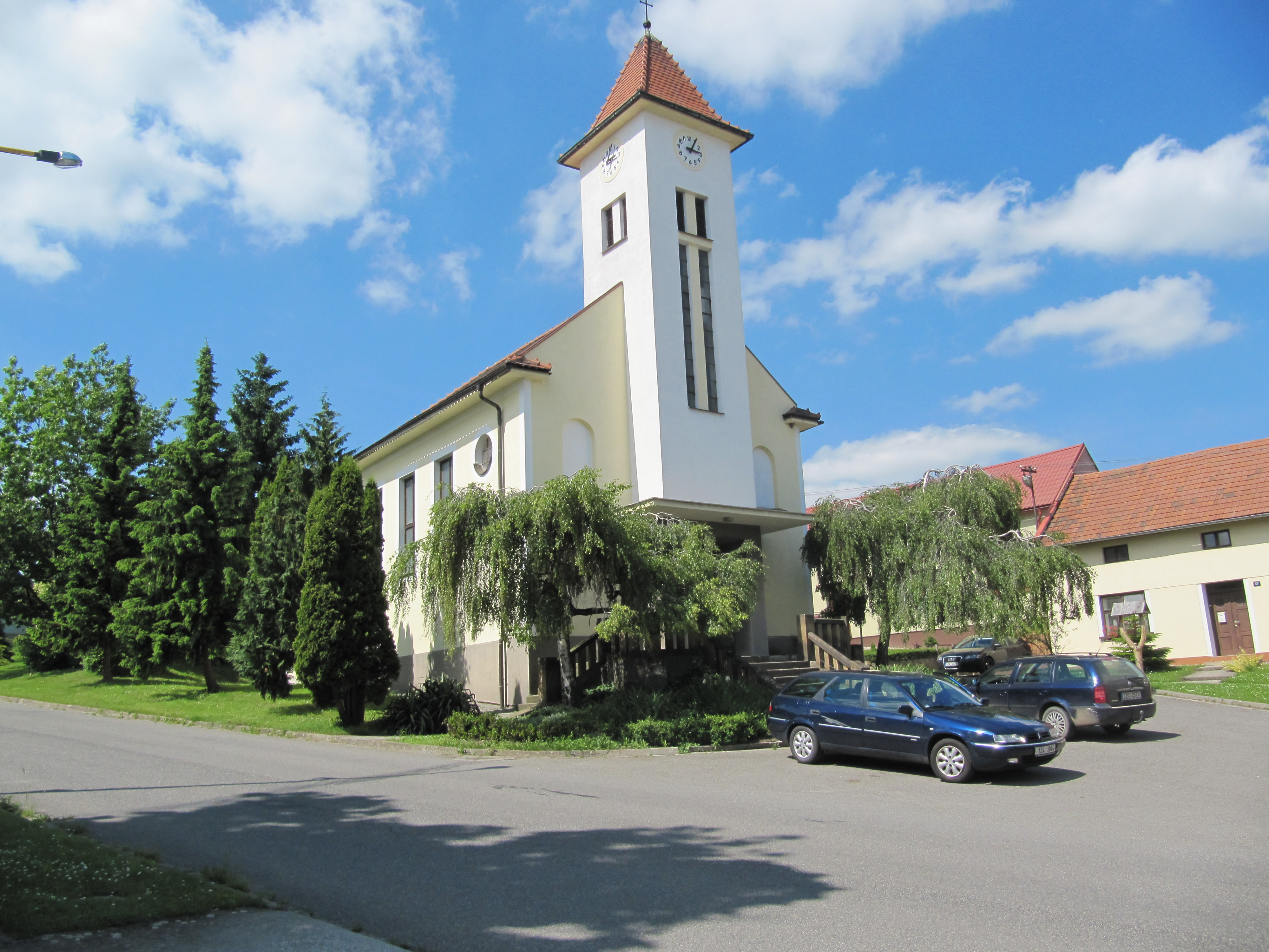 Žlutavain Zlín District, Czech Republic. Church.